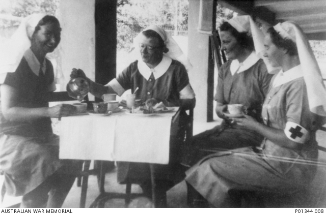 Four sisters of the 2/13th Australian General Hospital enjoy a cup of tea on the verandah of ward C1. Identified (left to right): Sister (Sr) Vivian Bullwinkel; Matron Irene Drummond; Sr M Anderson; Sr M Selwood. The hospital was located in an unfinished mental hospital about seven miles north of Johore Bahru. Matron Drummond was one of 21 AANS nurses killed in the Banka Island massacre on 16 February 1942. Sr Bullwinkel was the only survivor of the massacre. She was later held at Pelambang prisoner of war camp for three and half years.